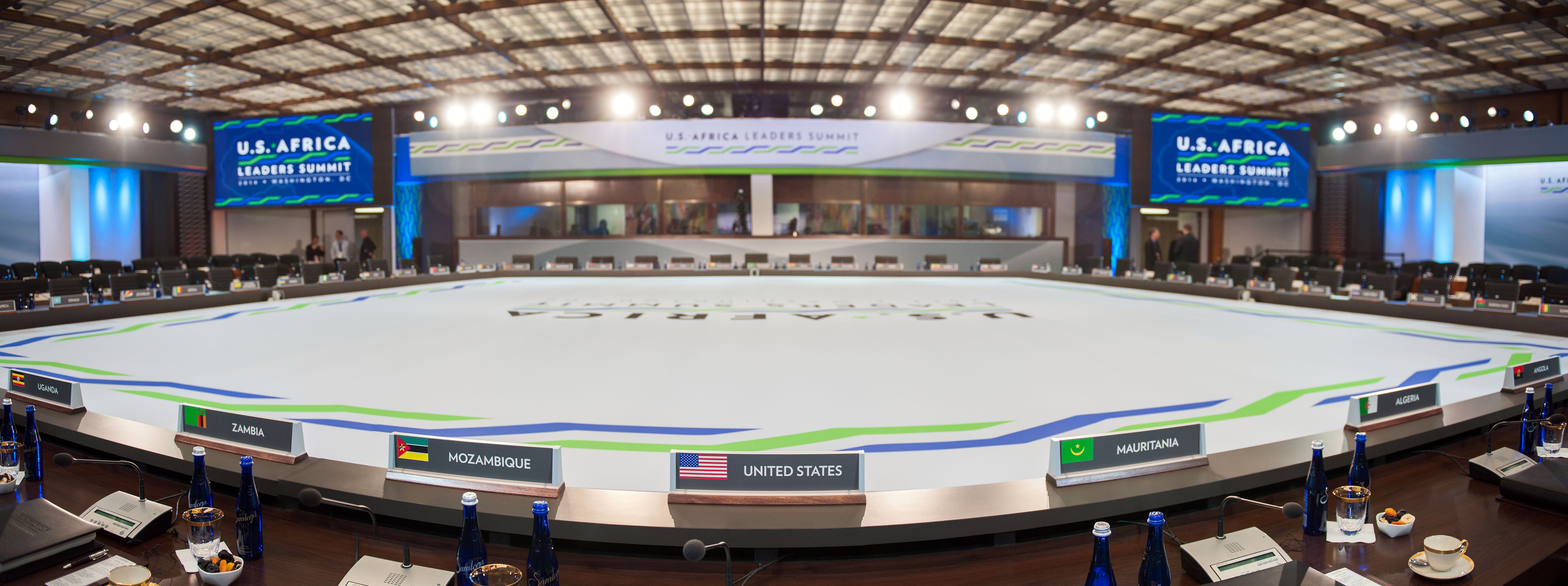 President Barack Obama and U.S. Secretary of State John Kerry prepare to welcome over 50 African leaders and their delegations to the U.S. Department of State for the final day of the U.S.-Africa Summit in Washington, D.C., on August 6, 2014.